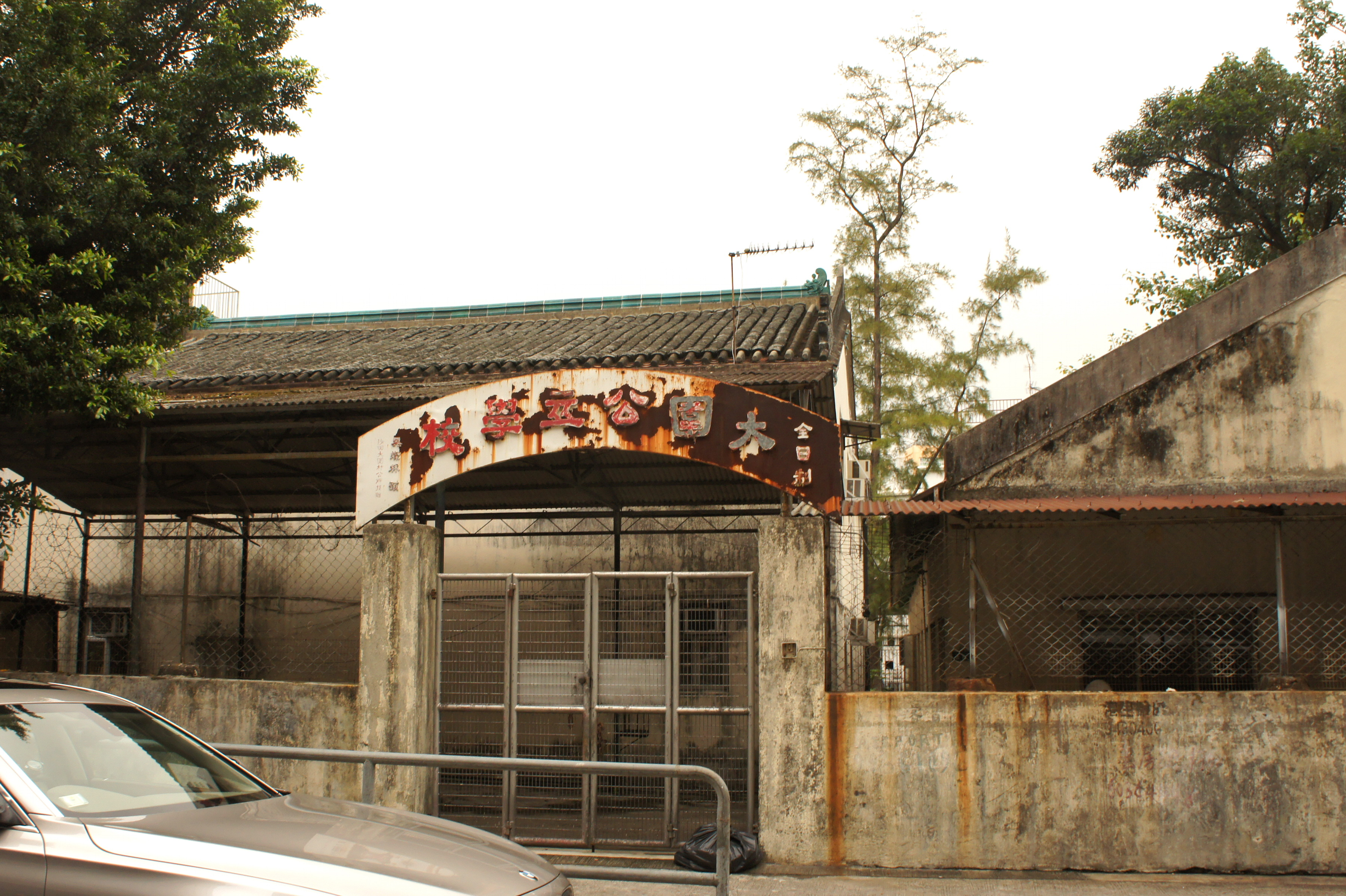 Tai Wai Public School, Tai Wai, Sha Tin, New Territories, Hong Kong.